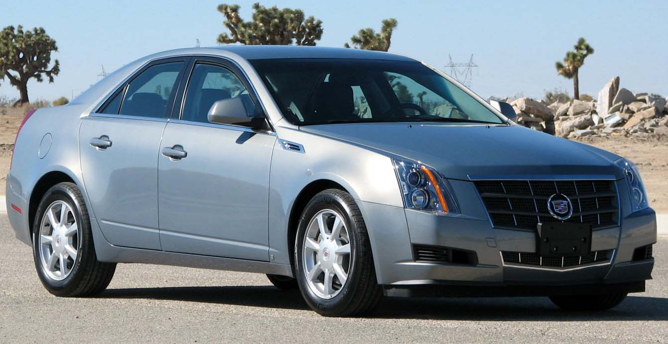 2008 Cadillac CTS photographed in USA.